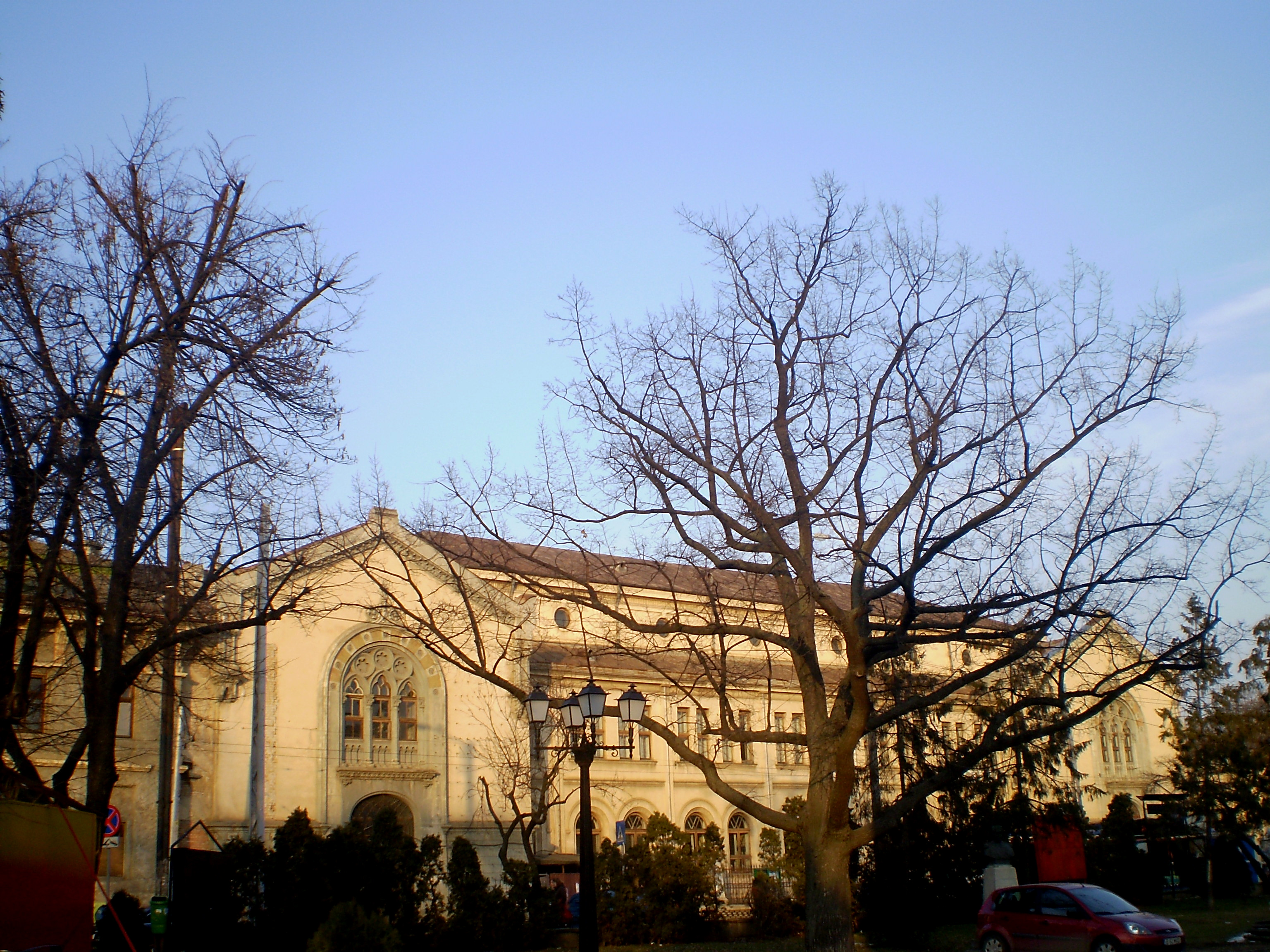 Iaşi , Philharmonic „Moldova“ building , former Chapel of Notre Dame de Sion Institute , Iaşi , Romania